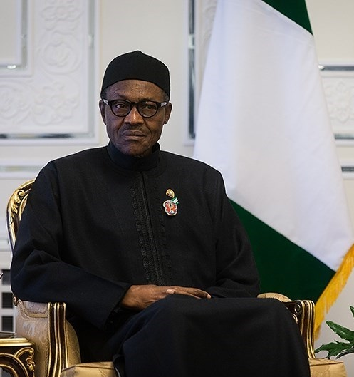 Muhammadu Buhari in a meeting with Iranian President Hassan Rouhani in Saadabad Palace, Tehran